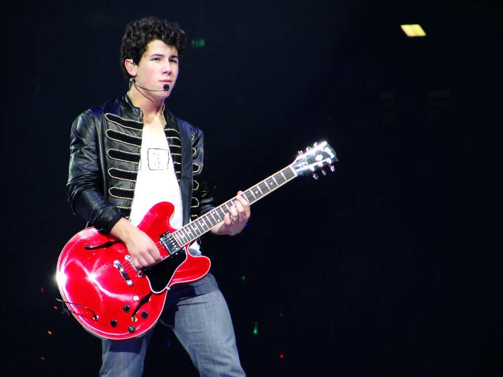 Jonas Brothers Concerts